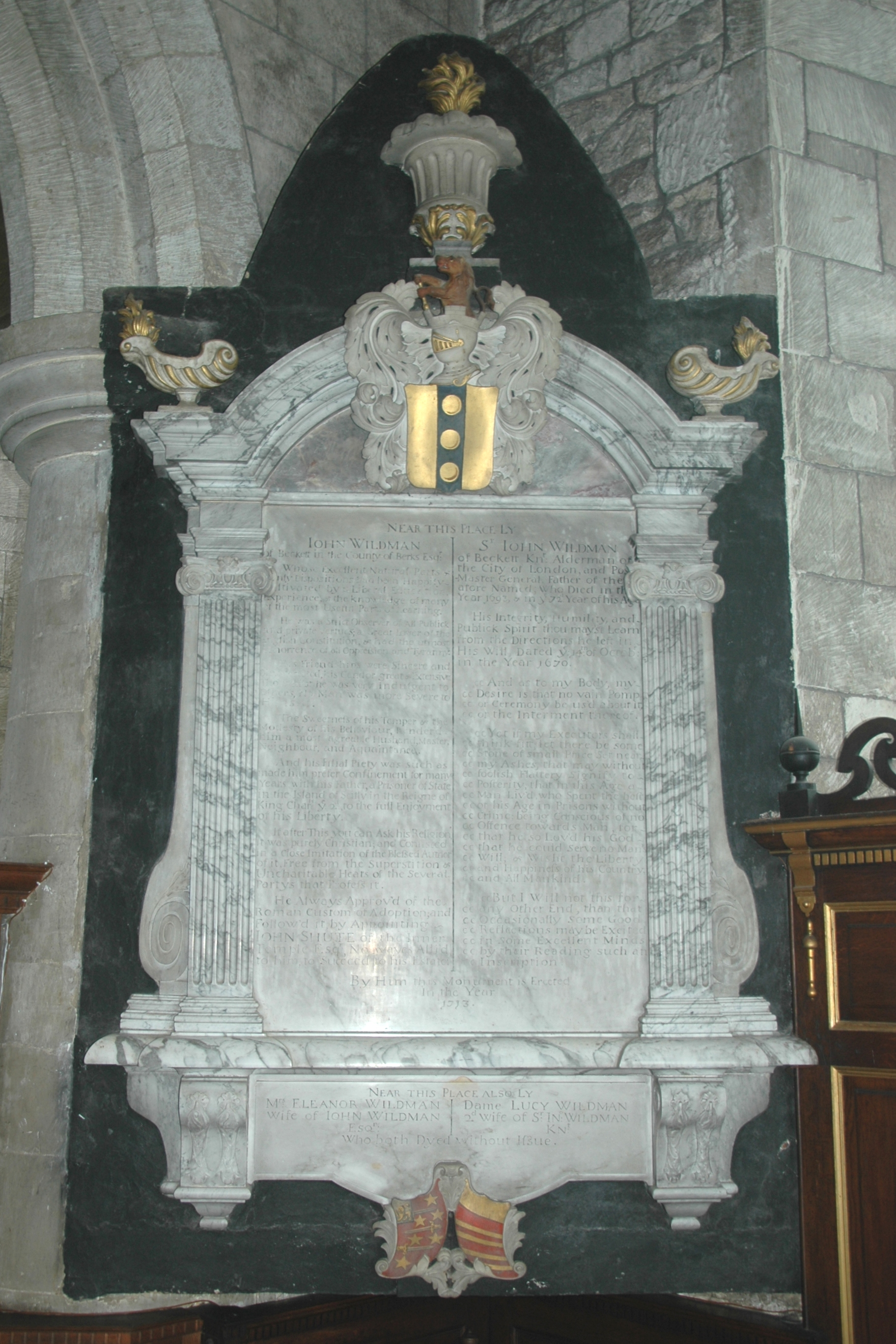 Church of England parish church of St Andrew, Shrivenham, Vale of White Horse: monument to John Wildman and St John Wildman, erected 1713